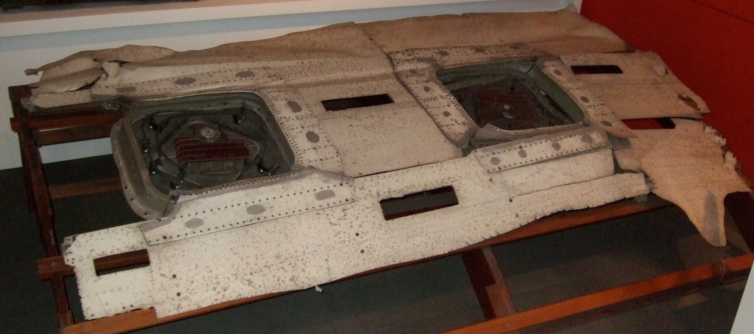 Fuselage fragment of de Havilland Comet G-ALYP which crashed January 10, 1954. This fragment, retrieved from the bottom of the Mediterranean Sea, was determined to be the original cause of the crash as it tore loose.